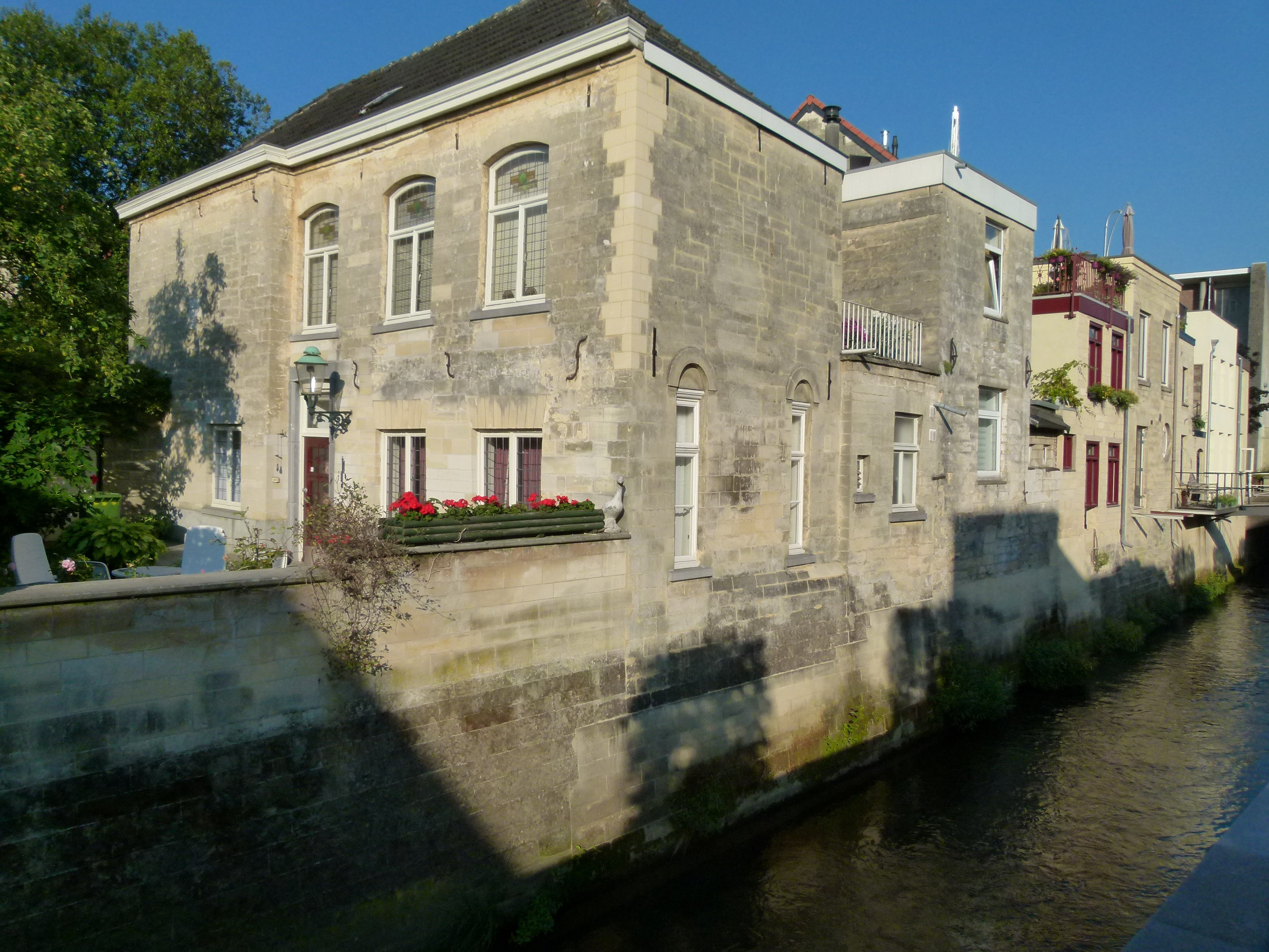 Valkenburg, Limburg, the Netherlands. View of the river Geul opposite Bogaardlaan in the center of Valkenburg.